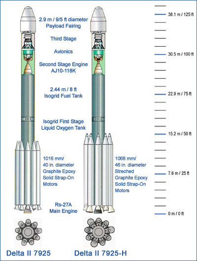 Comparison of two variants of the Delta II rocket.